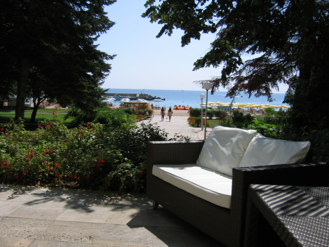 Author: Chicho Ficho 2005